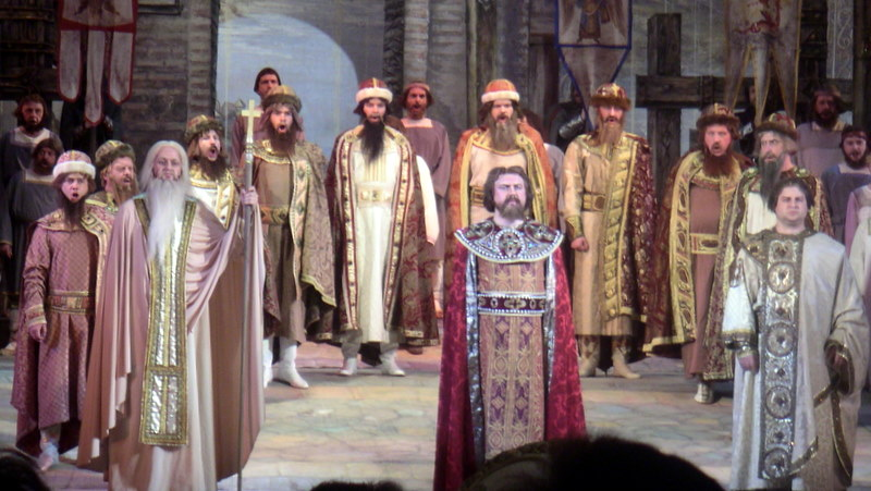 Sergiy Magera (centre) in the role of Yaroslav Mudriy, (Yaroslav the Wise), in the 1975 opera of the same mame by Hiorhiy Maiborodoa, from the production of the Kyiv Opera House.